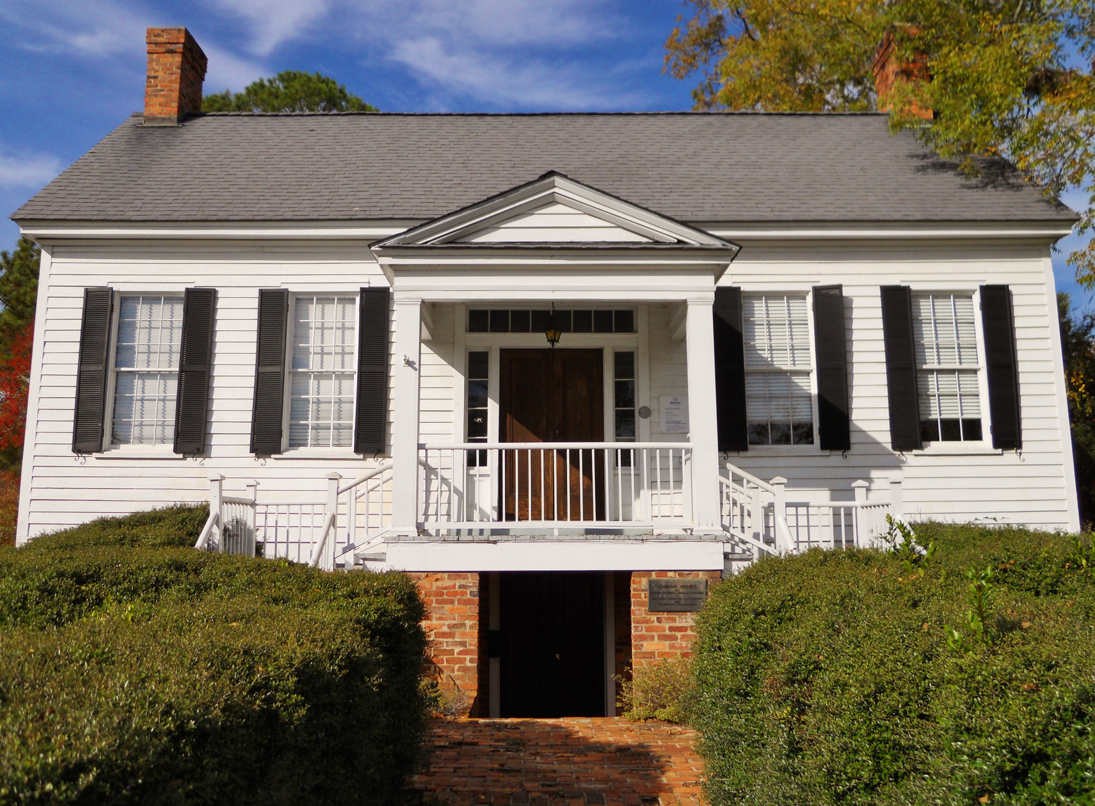 This is a photo of the Sheppard Cottage in Eufaula, Alabama.